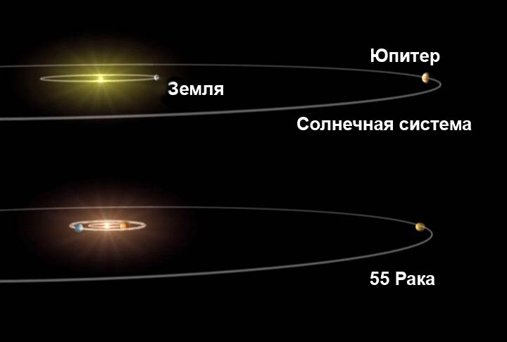 Our solar system compared with the solar system of 55 Cancri